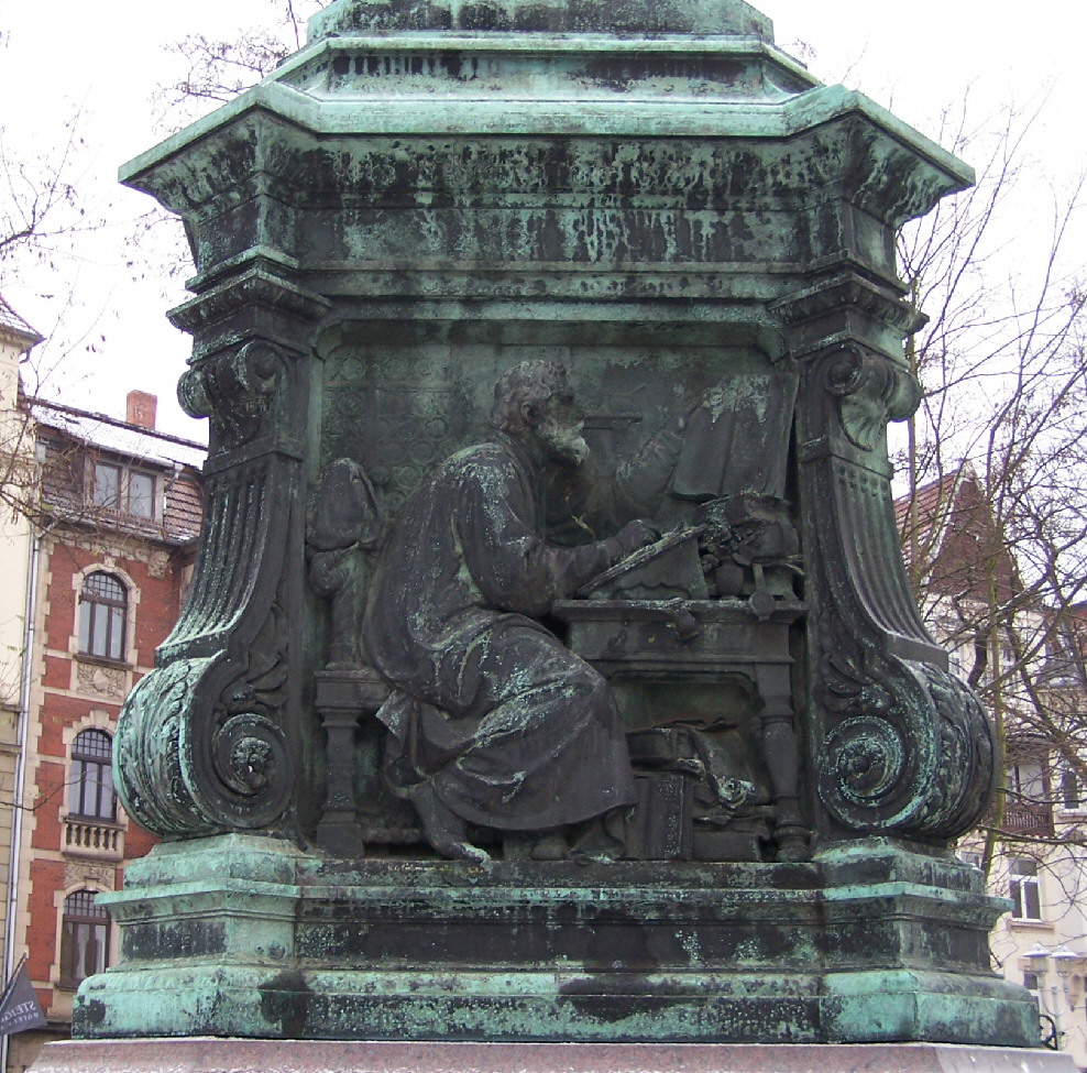 A detail at the southern front of the Luther monument in Eisenach.